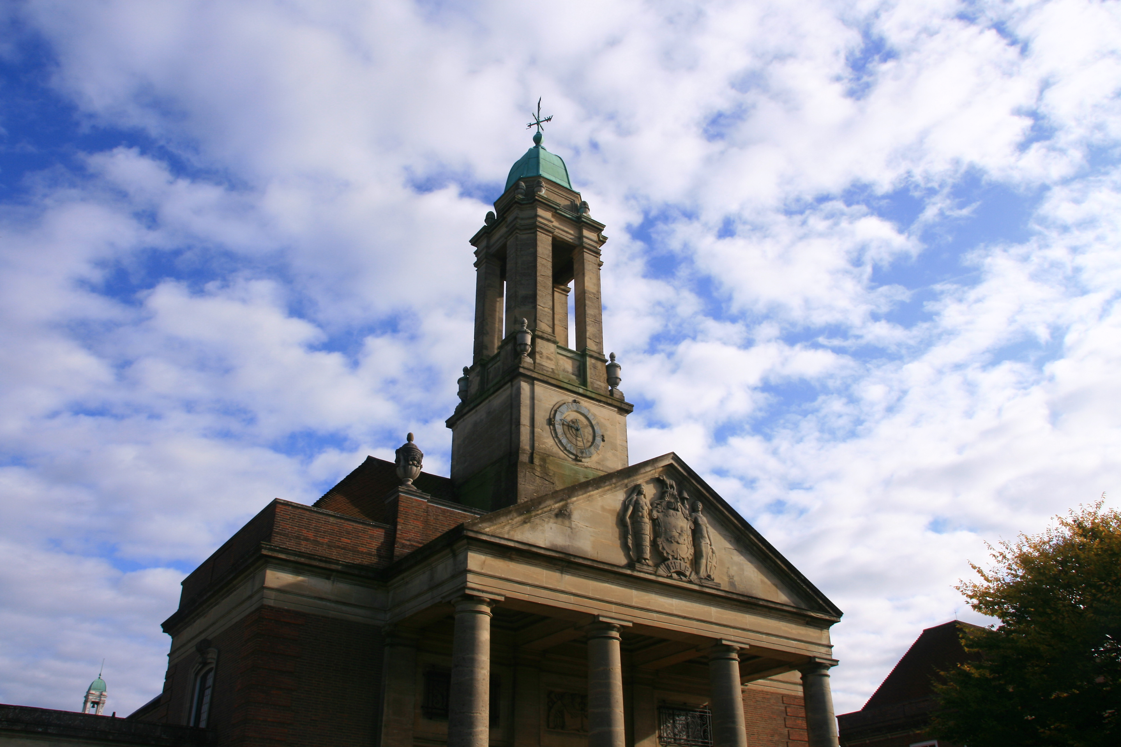 Ashlyns School Building Including The Chapel, Main Block And Classroom Wings Wikidata has entry Q26670119 with data related to this item.